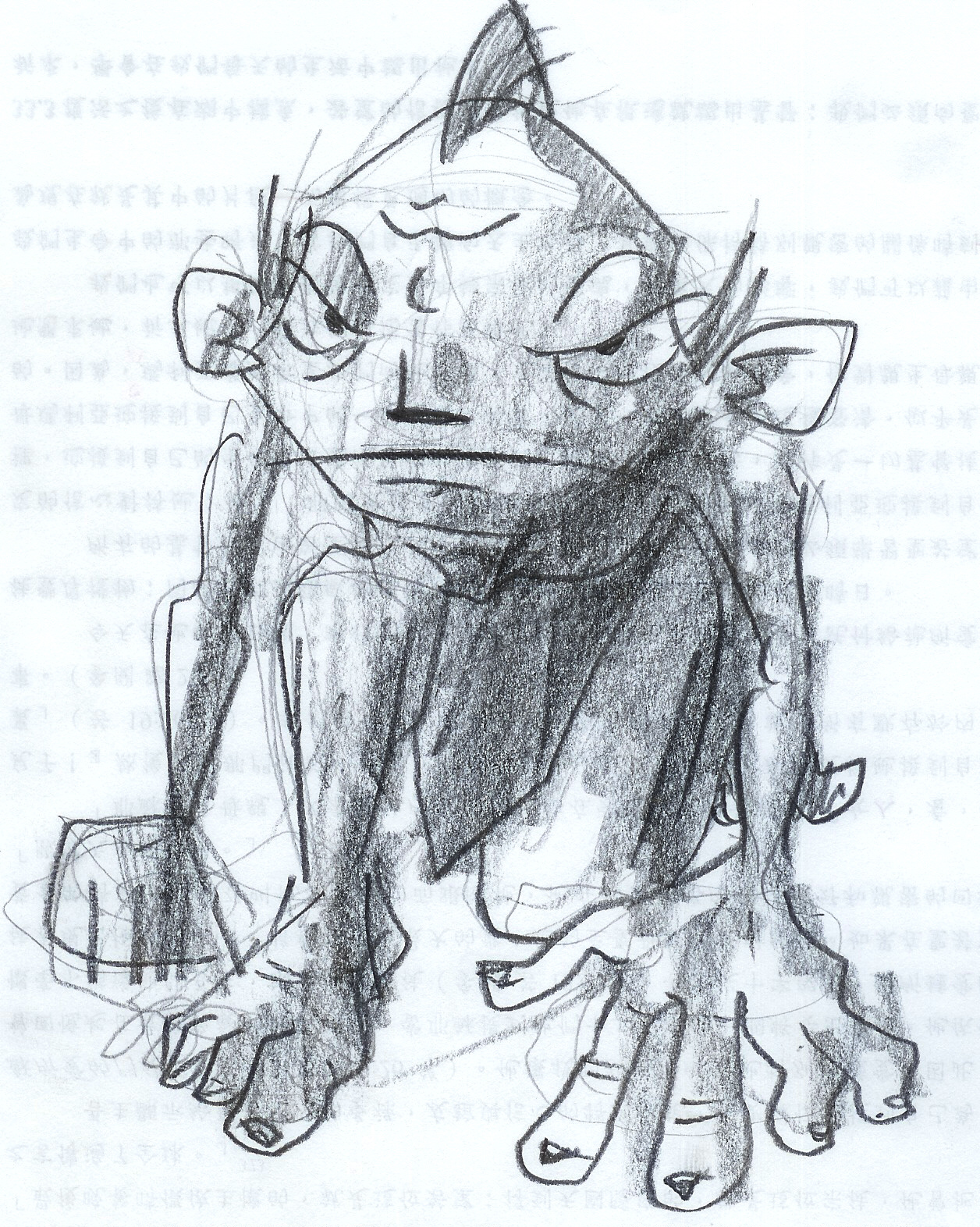 Gollum from The Lord of the Rings and The Hobbit by J. R. R. Tolkien.